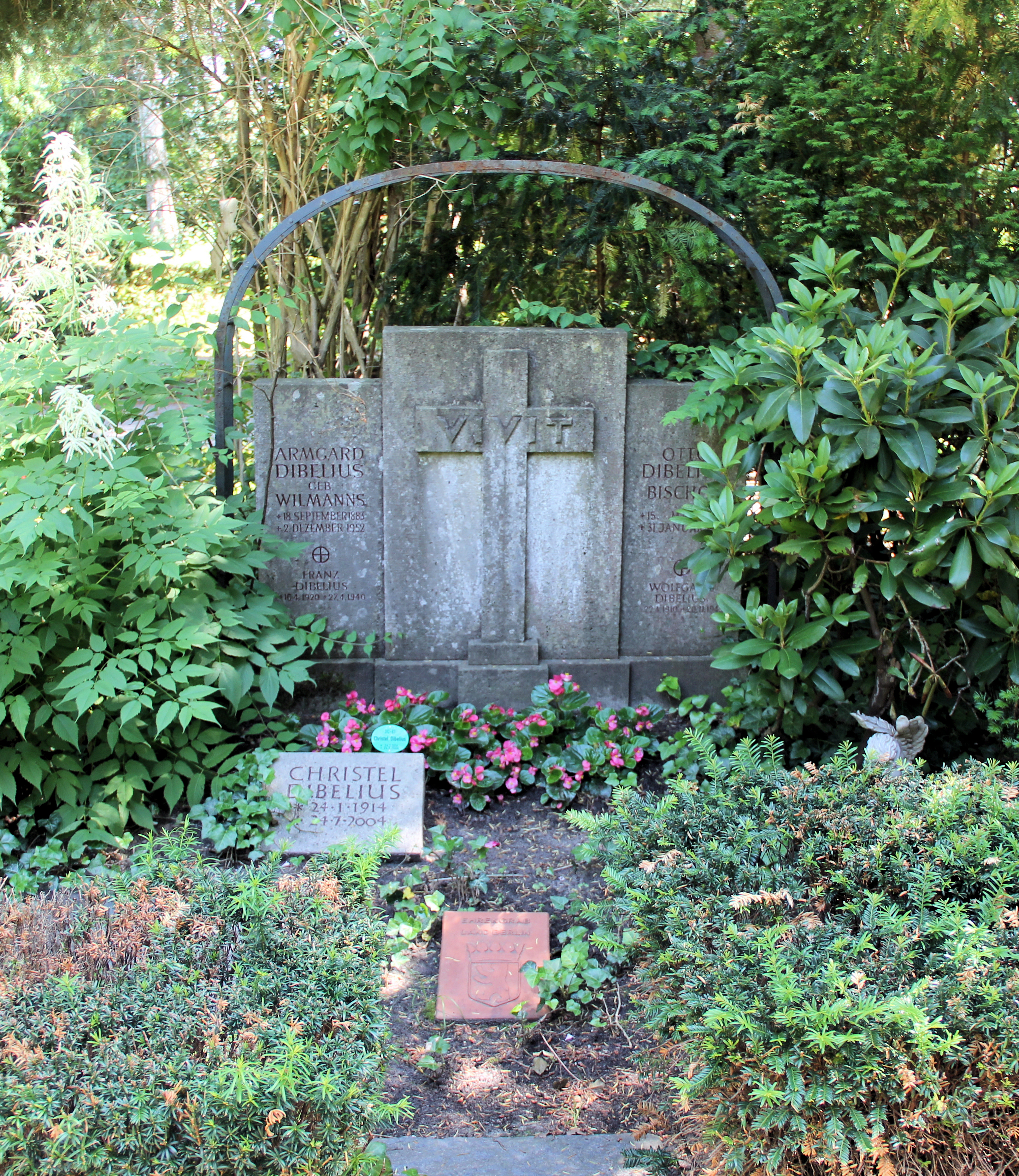 "Ehrengrab" (grave of honor), Otto Dibelius, Thuner Platz 2-4, Berlin-Lichterfelde, Germany Koordinate:52°25′24″N 13°17′45″E / 52.42333°N 13.29583°E